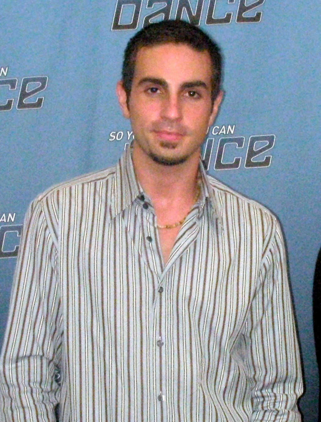 Choreographer Wade Robson at the "So You Think You Can Dance" season four finale, backstage after the show